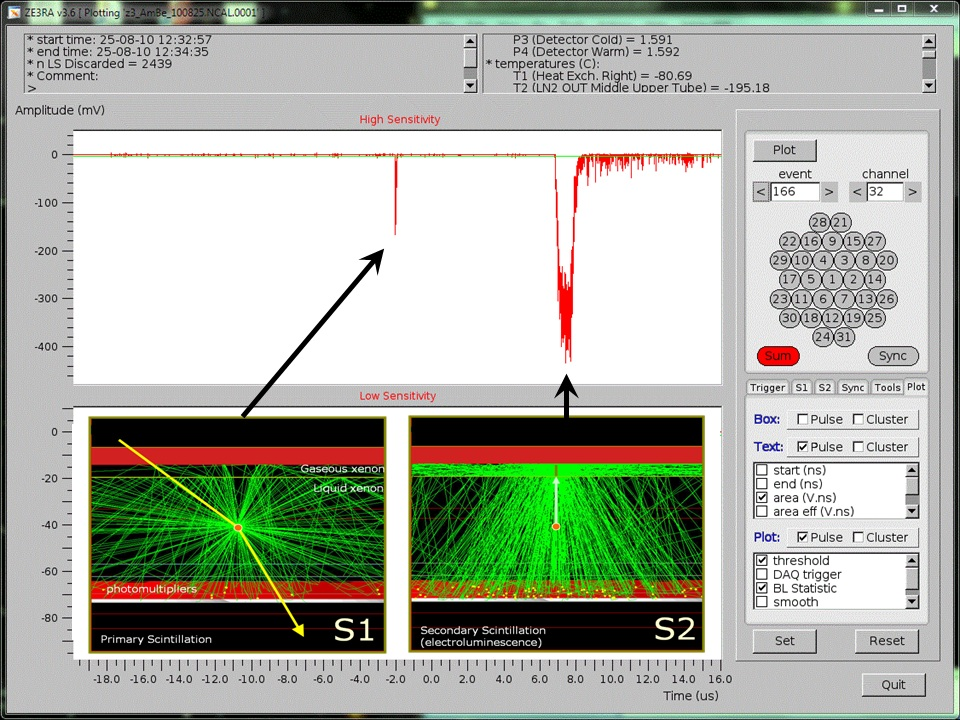 Event from ZEPLIN-III liquid xenon detector with optical simulation insets